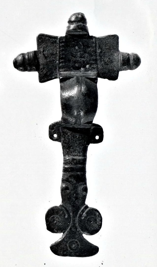 Early Anglo-Saxon cruciform brooch, 5th to 6th century. Cast in copper alloy. British Museum